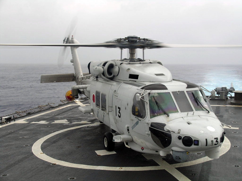 Pacific Ocean (Nov. 11, 2006) - A Japanese Maritime Self-Defense Force SH-60J Seahawk helicopter sits on the flight deck of guided-missile destroyer USS Curtis Wilbur (DDG 54) after flying a U.S Navy liaison officer from Japanese Maritime Self-Defense Force (JMSDF) Aegis destroyer JDS Kirishima (DD 174). Kirishima and Curtis Wilbur are working together during the U.S. and JMSDF exercise ANNUALEX. The exercise is designed to improve both forces' capabilities in the defense of Japan. Approximately 8,500 U.S. Sailors are taking part aboard 13 ships, submarines and various shore-based aircraft. About 90 JMSDF ships and 130 aircraft are also participating. U.S. Navy photo by Ensign Stephanie Krueger (RELEASED)